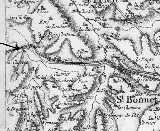 Besenet on the map of Cassini